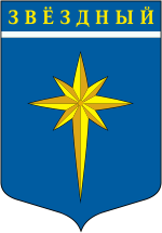 Zwezdny (Perm krai), coat of arms